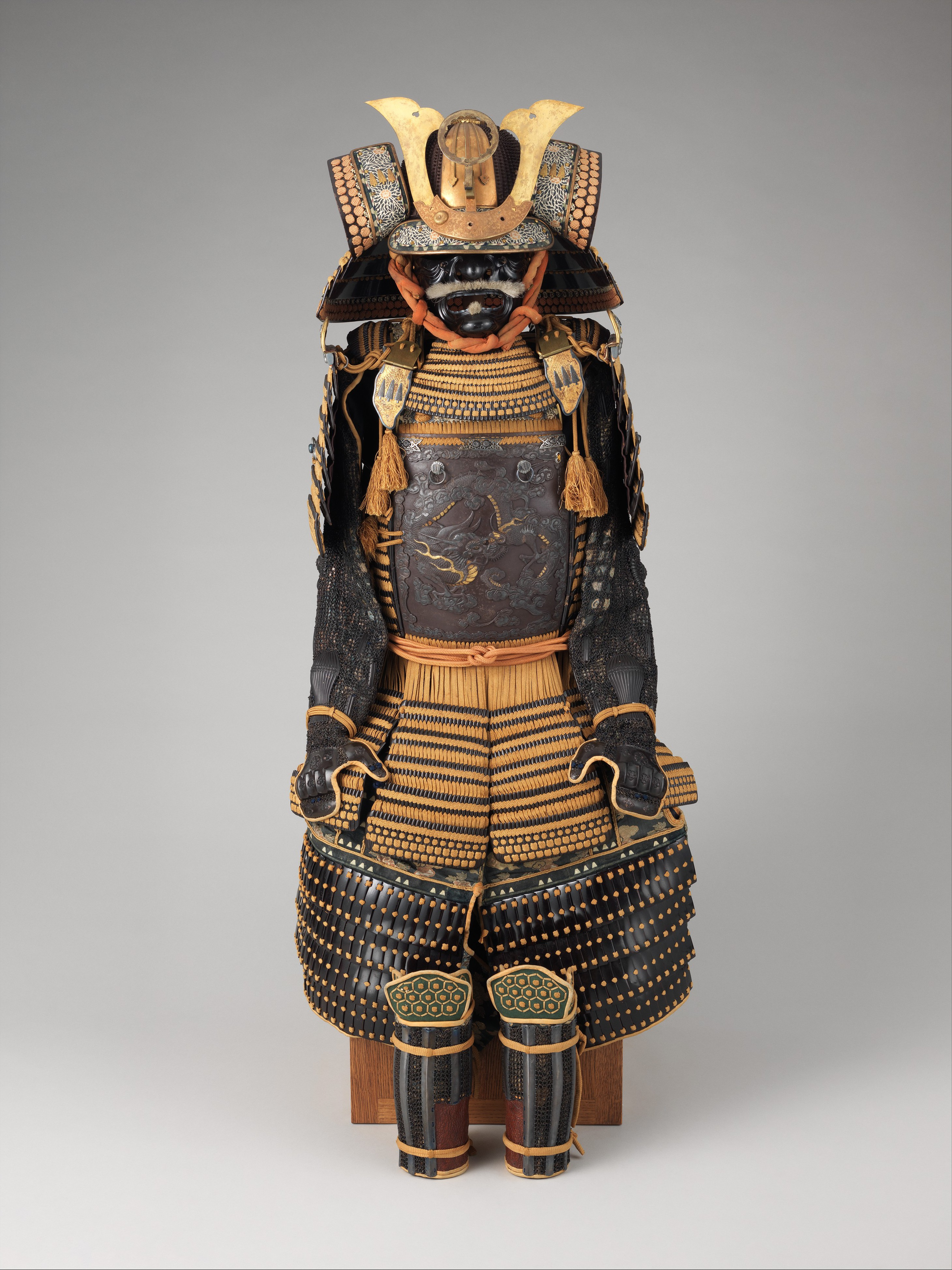 Japanese; Armor (Gusoku); Armor for Man